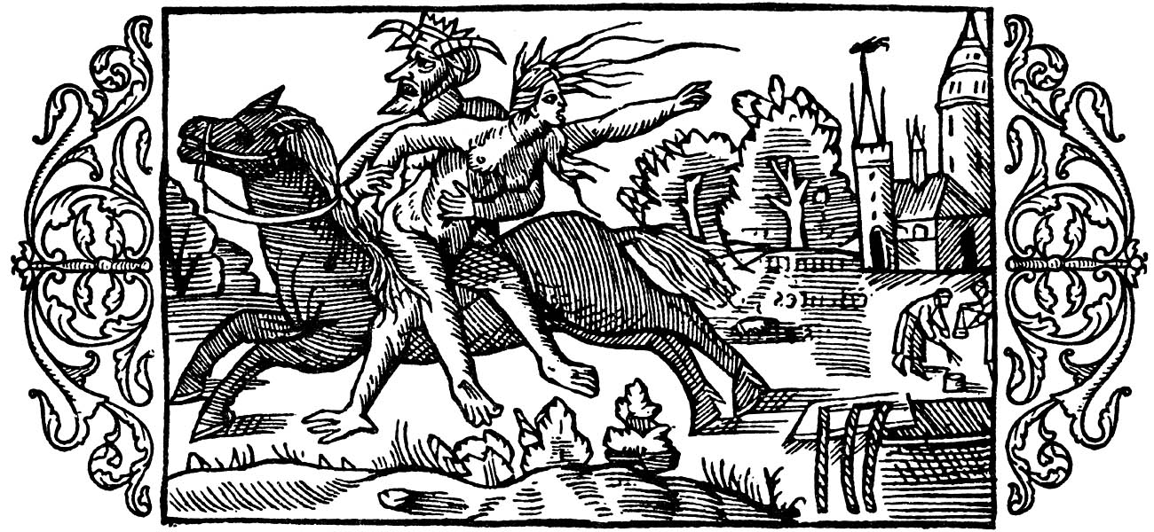 This woodcut illustrates a story of a witch from England, not from the North. As a punishment for her evil deeds, all her family died. In her despair, she asked to be buried alive. To the right we see the empty sarcophagus she was buried in and the three chains that sealed it. The grave was broken up and the devil now takes her away on his horse.